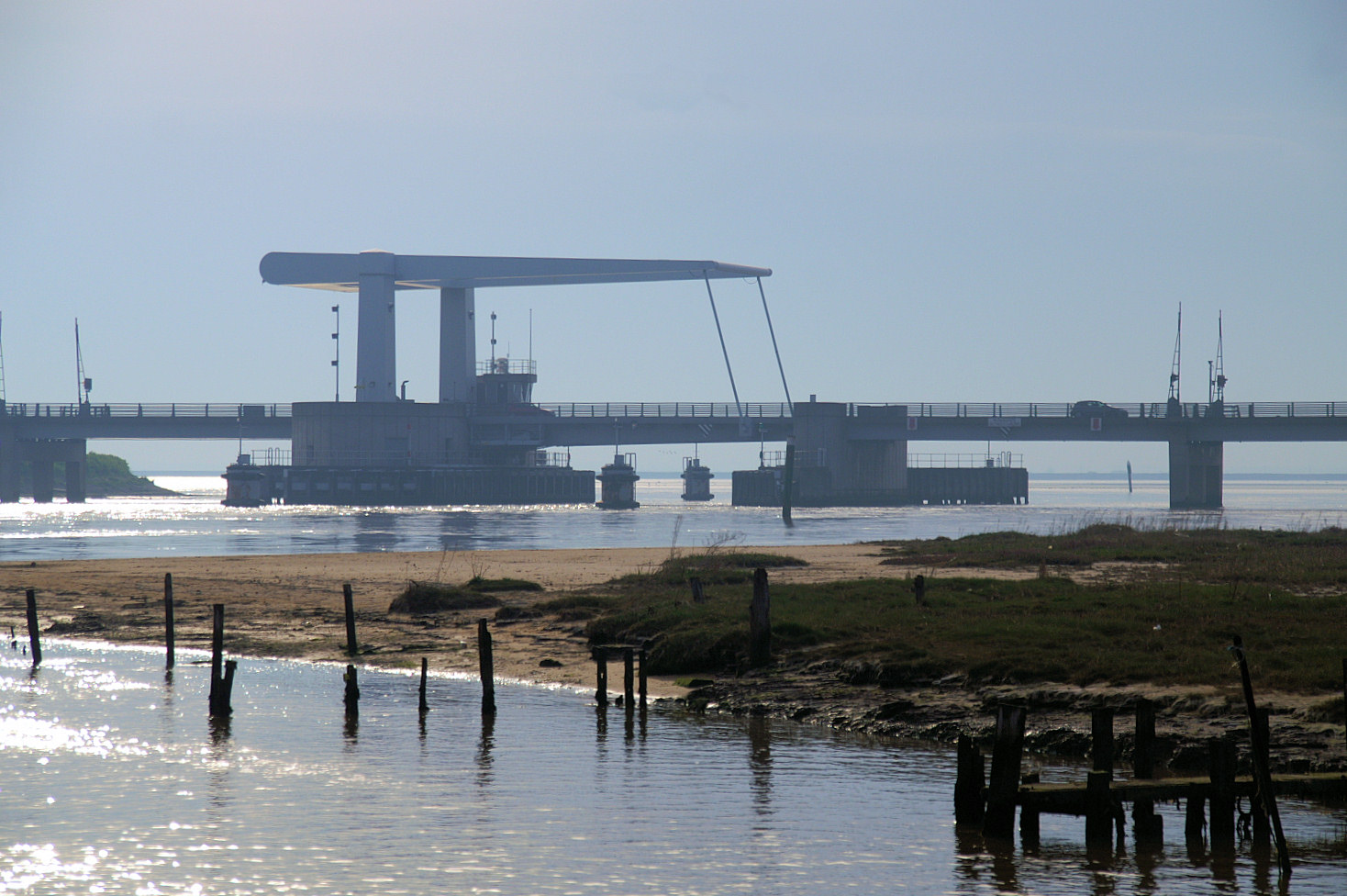 The lifting section of Breydon Bridge, carrying the A47 over Breydon Water to the west of Great Yarmouth, Norfolk. Looking upstream from the mouth of the River Bure.